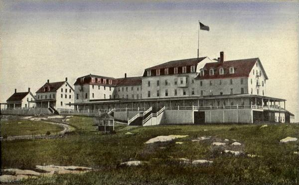 The Oceanic Hotel, Star Island, Isles of Shoals, NH; from a c. 1910 postcard.